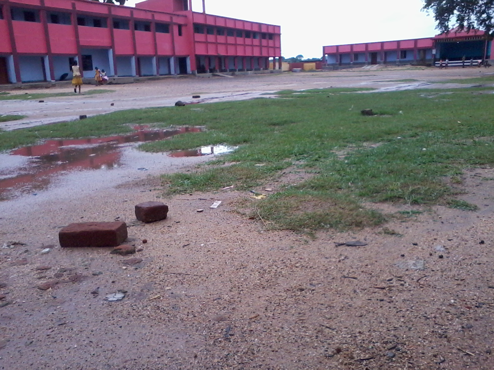 School